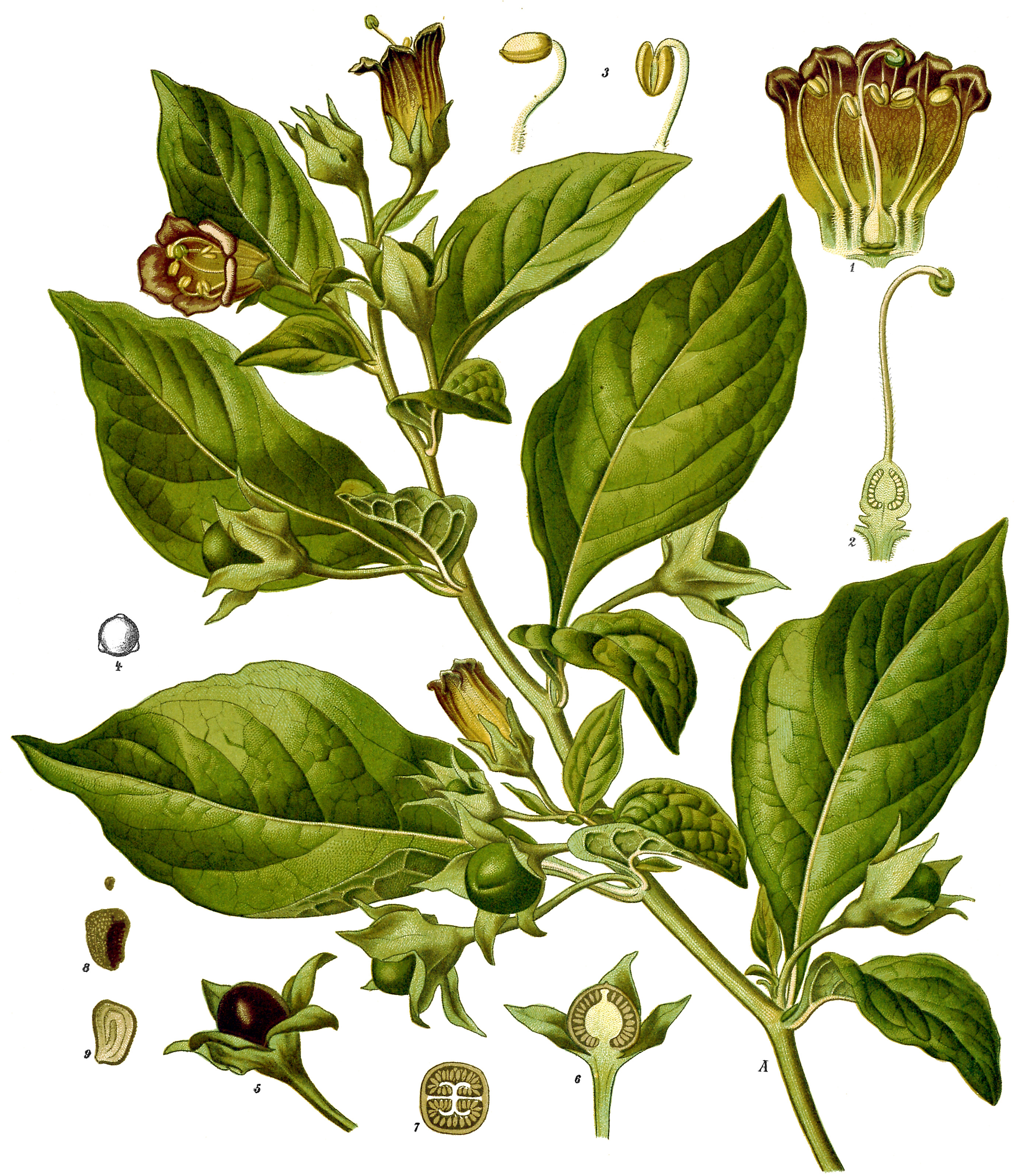 Atropa belladonna, illustration.